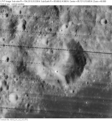 Tacchini lunar crater - Lunar Orbiter IV image LO-IV-018H LTVT.